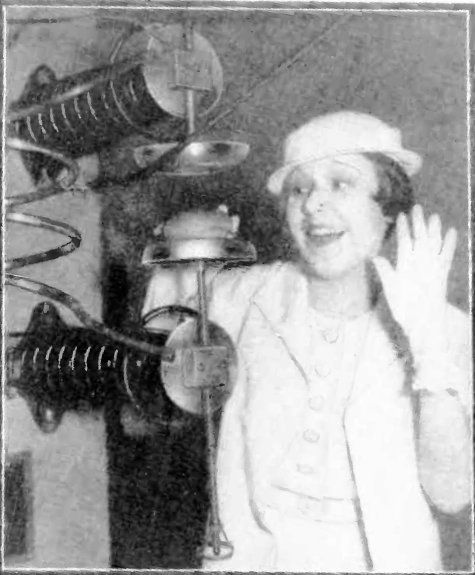 Demonstration of cooking by radio waves at the 1933 Chicago World's Fair, "Century of Progress", Chicago, Illinois, USA from radio magazine. This was a forerunner of modern microwave ovens which were developed in the 1950s. At Westinghouse Corp's "Powercasting" exhibit of futuristic shortwave technology, sandwiches were cooked by placing them between metal plates of a powerful 10 kW 60 MHz short wave transmitter, as shown. The magazine article (p. 394) says steaks, potatoes, and vegetables were also cooked in a few minutes. The exhibit also demonstrated wireless power transmission; a 1/4 horsepower motor was run by radio waves over a distance of 30 feet, and audience members could expose their bodies to the radio waves and feel the heat generated. The short wave technology was developed at Westinghouse research laboratories by I. F. Mouromtseff, and the demonstrations were conducted by G. R. Severance and film star Fifi D'Orsay (shown)